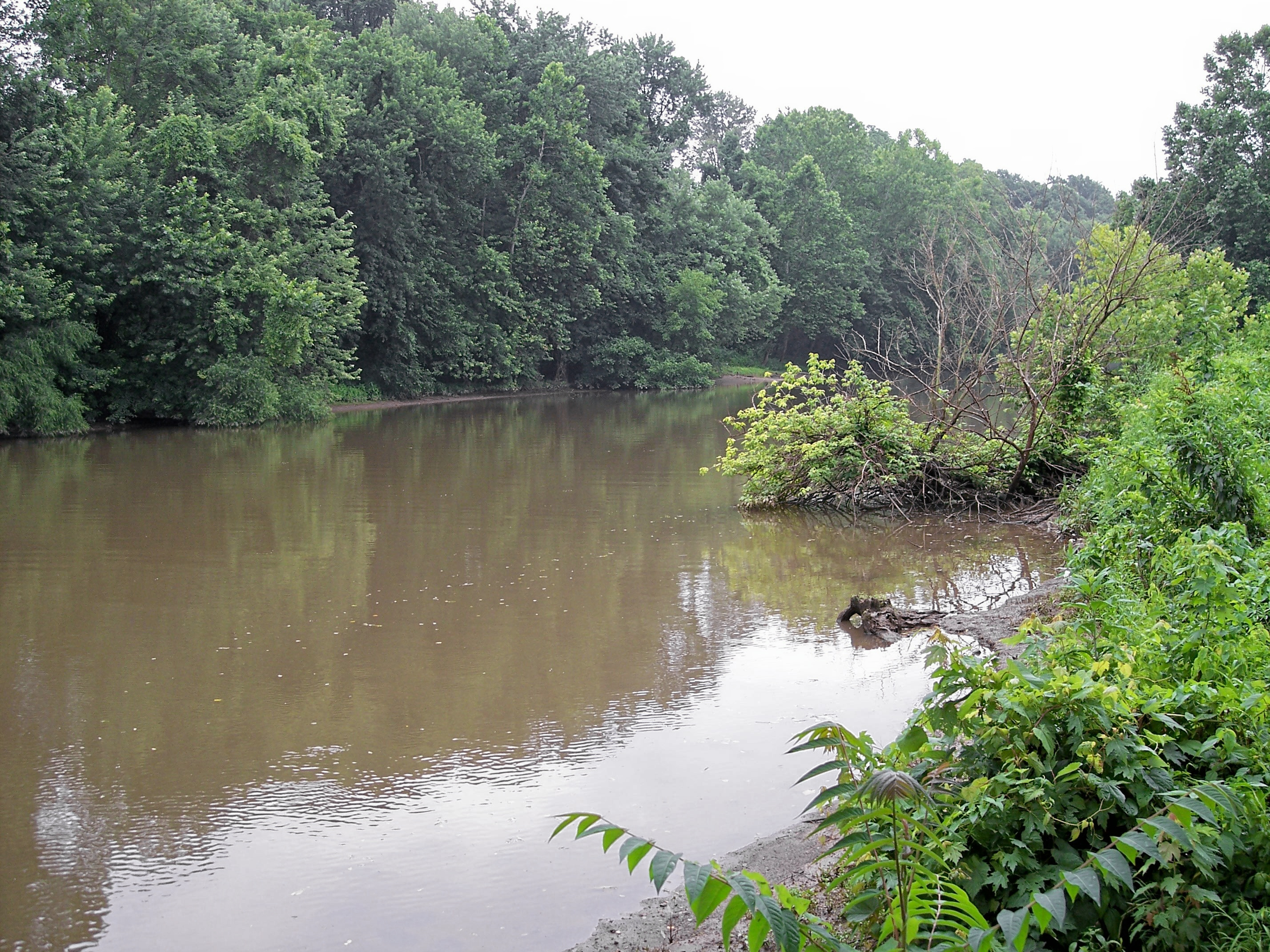 Sandy Creek in Ravenswood, West Virginia, as viewed upstream from near its mouth at the Ohio River